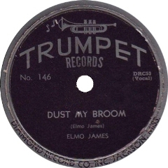 Elmore James